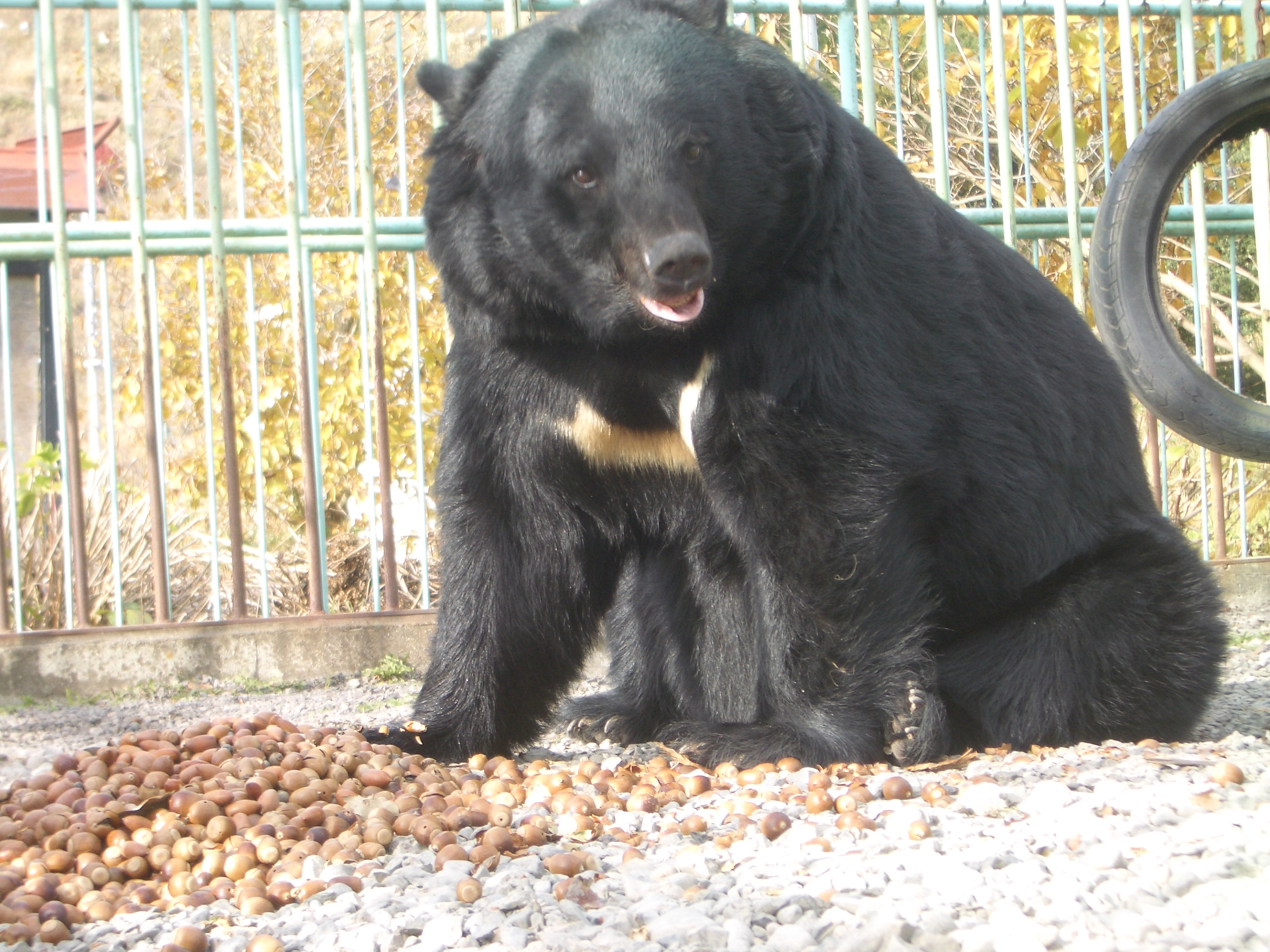 Ursus thibetanus